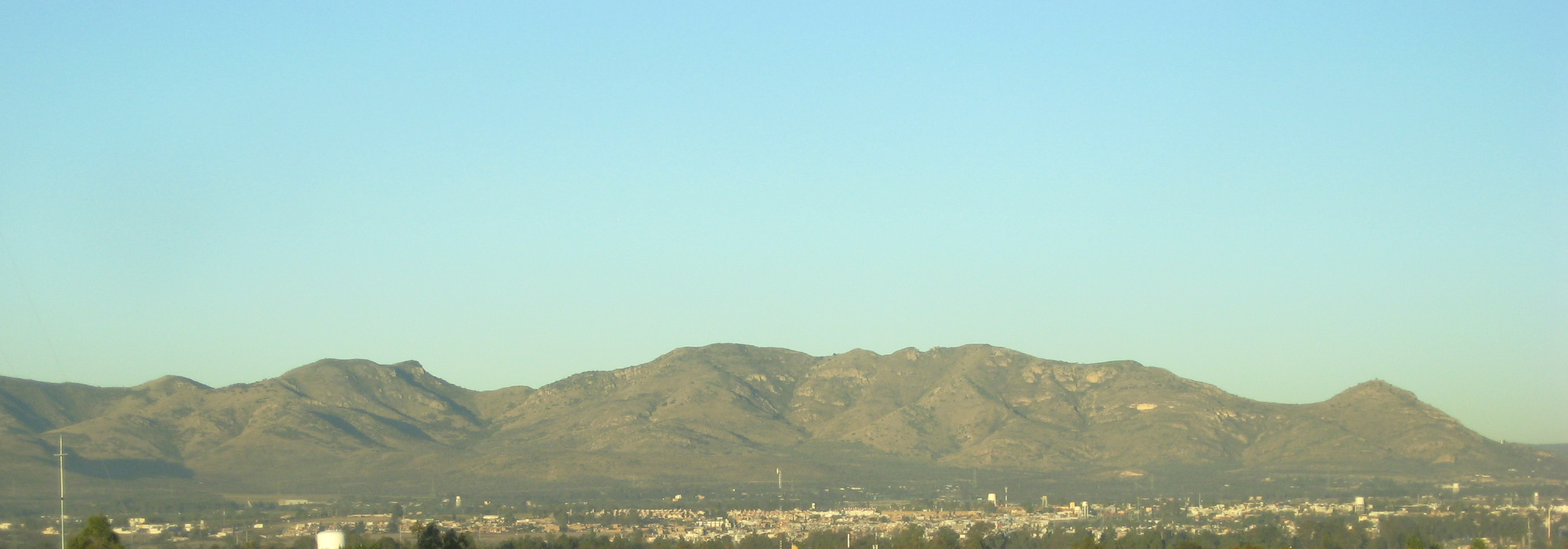 Picture of the Cerro del Muerto, "dead man Hill"